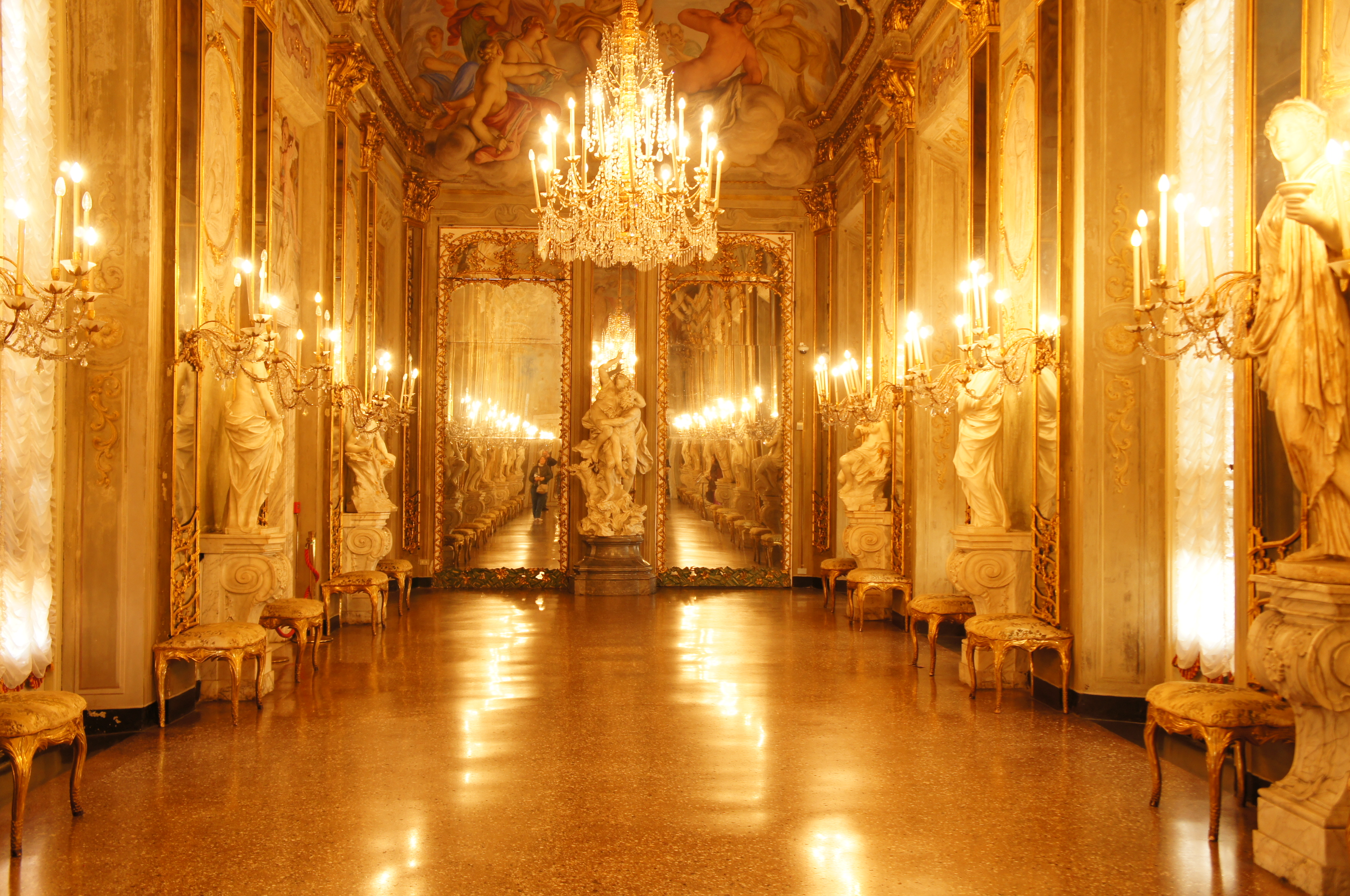 Palazzo Reale (inside), Genoa